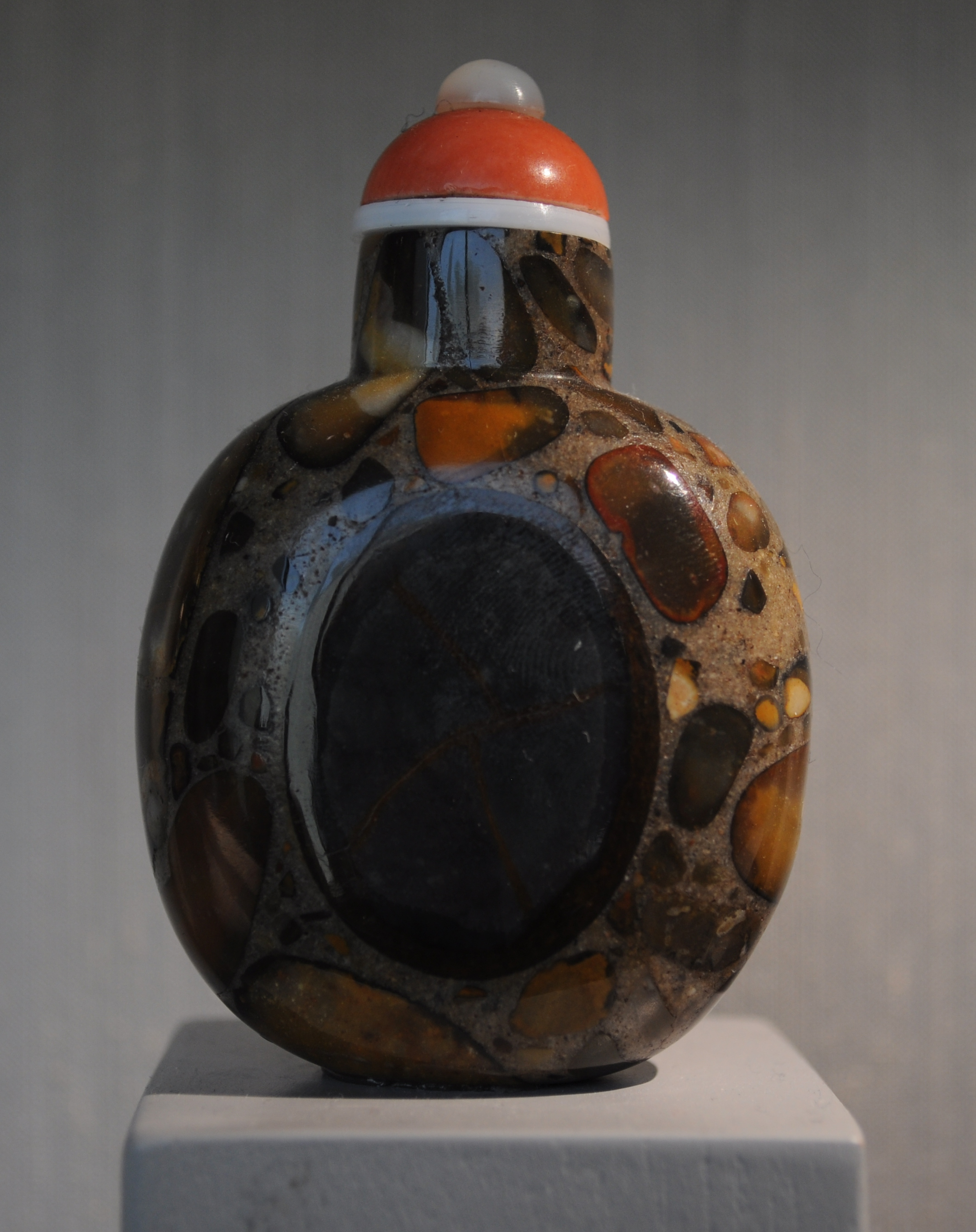 Snuff bottle in the Crow Collection of Asian Art, Dallas, Texas.